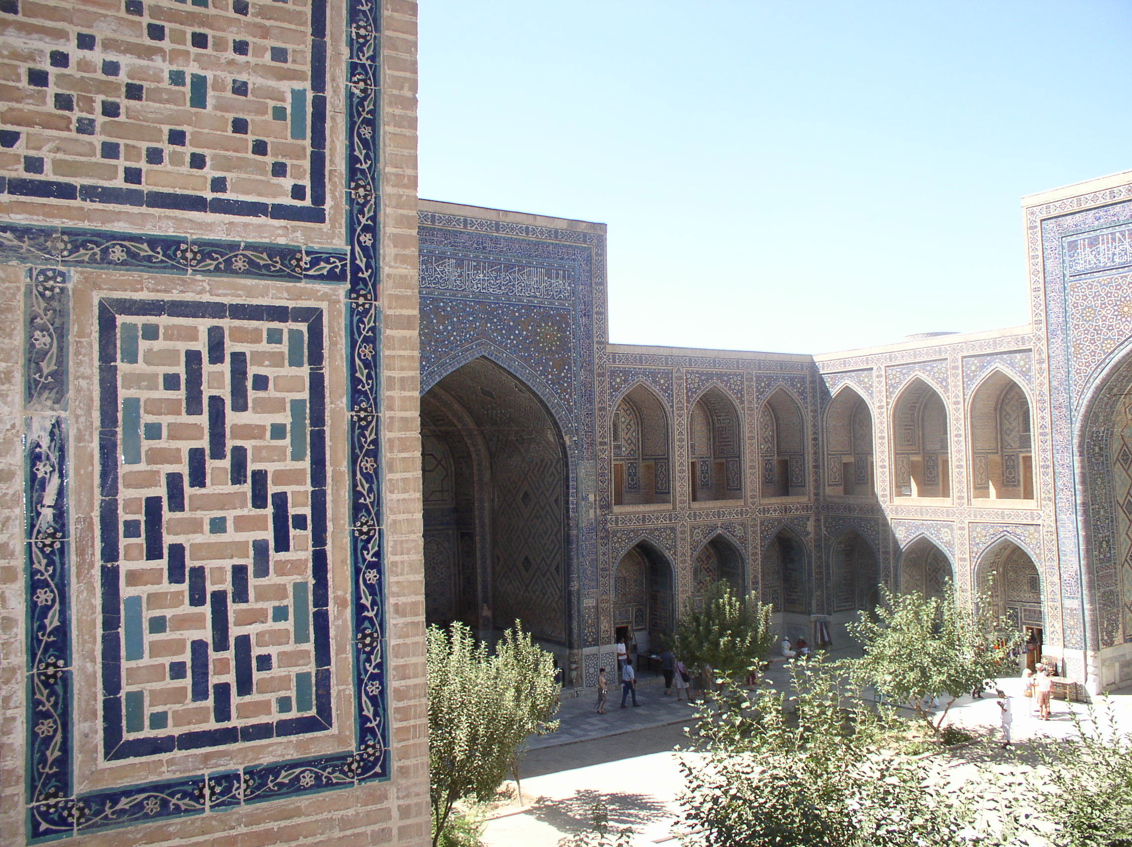 Ulugh-beg Madrassa courtyard and khujras (cells) where students used to live, Samarqand, Uzbekistan. Timurid Empire architecture.